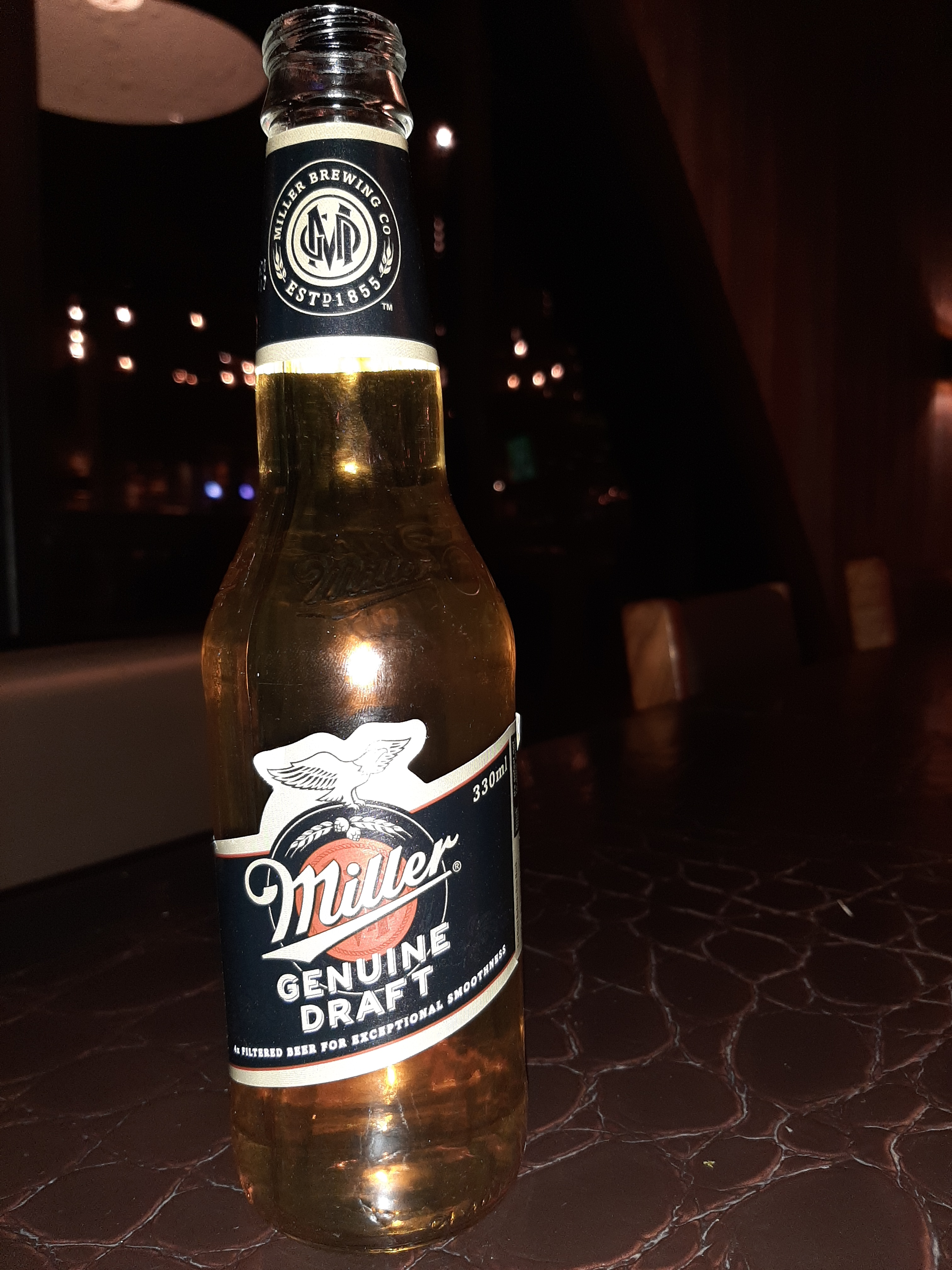 Miller Genuine Draft (bottle 330ml) Bottle. Photo Taken at the Crown Casino in Perth WA Australia